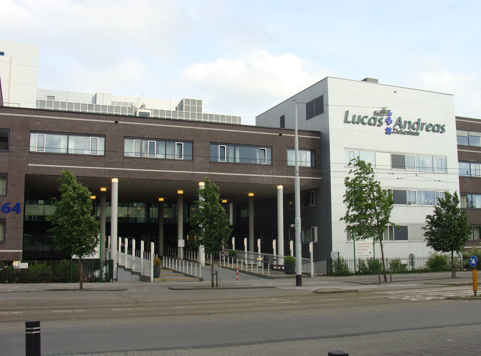 Main entrance of the Sint Lucas Andreas Ziekenhuis ("St. Luke's and Andrew's Hospital"), at the Jan Tooropstraat, Amsterdam, the Netherlands. Front of the building has been newly built somewhere between 1999 and 2009, Wiegerinck Architekten Arnhem